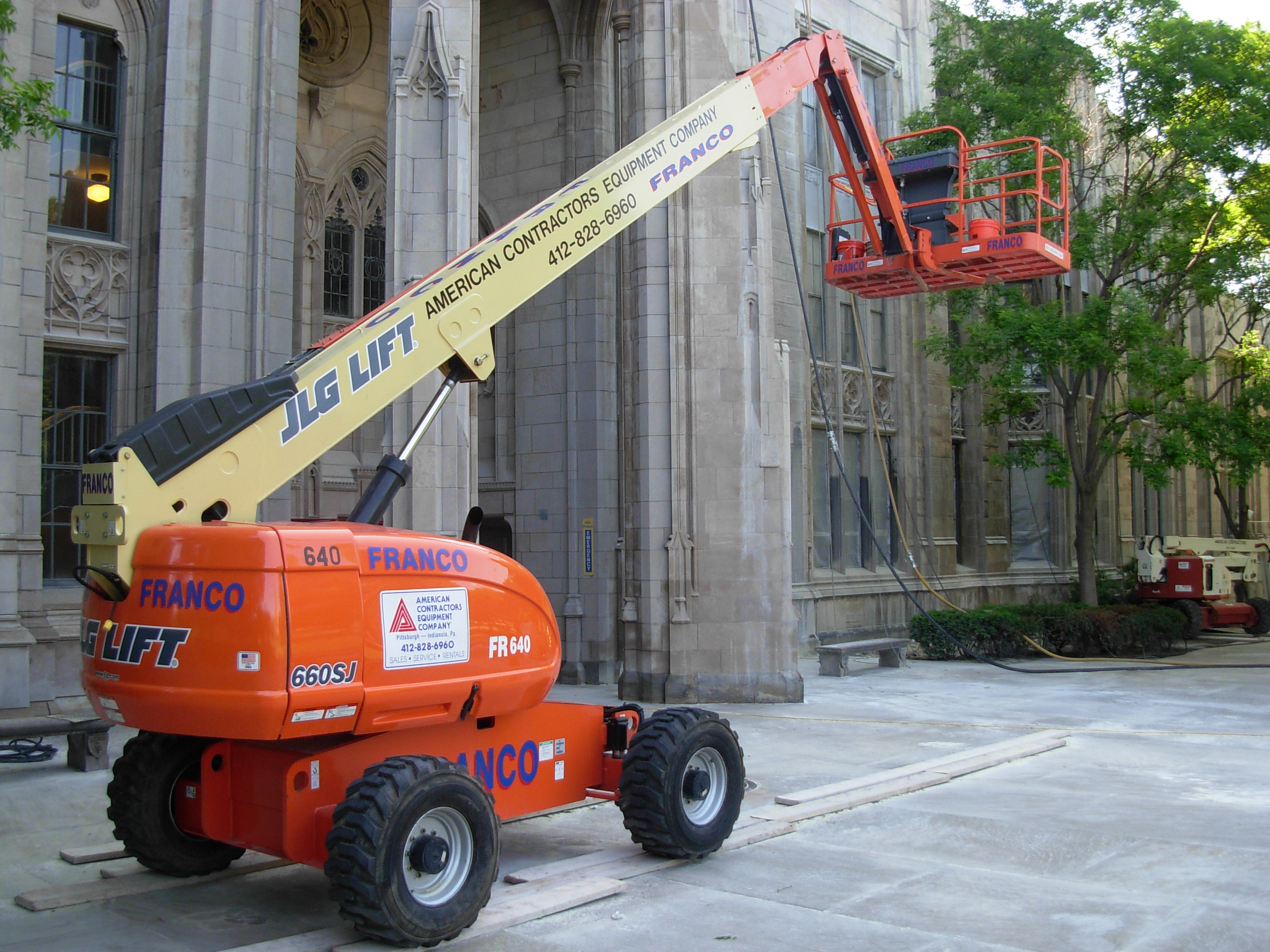 Building machines at tool at Cathedral of Learning, May-June 2007.